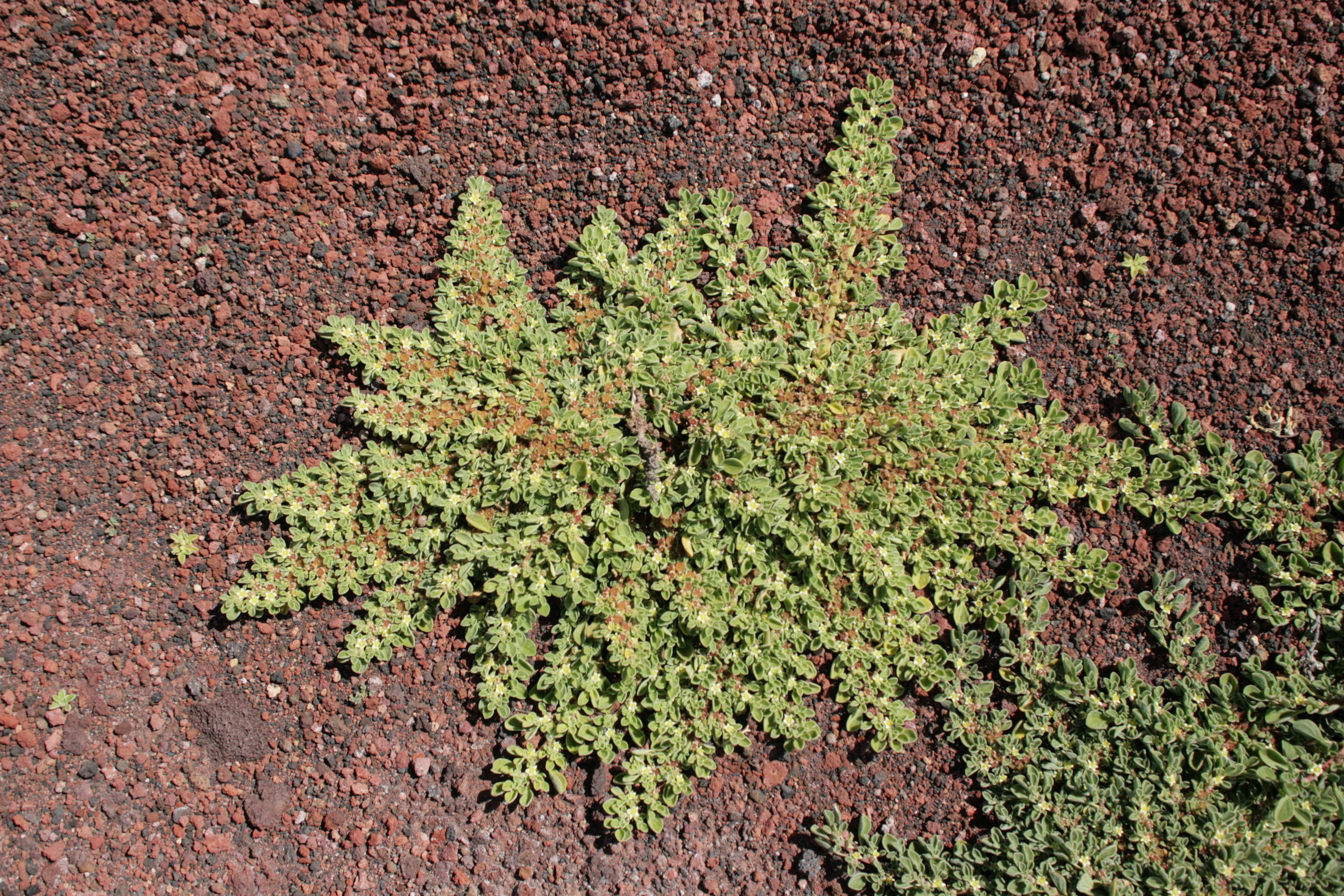 Aizoon canariense growing in the Caldera de Masián at road LZ-703 in Femés, Yaiza, Lanzarote, Canary Islands